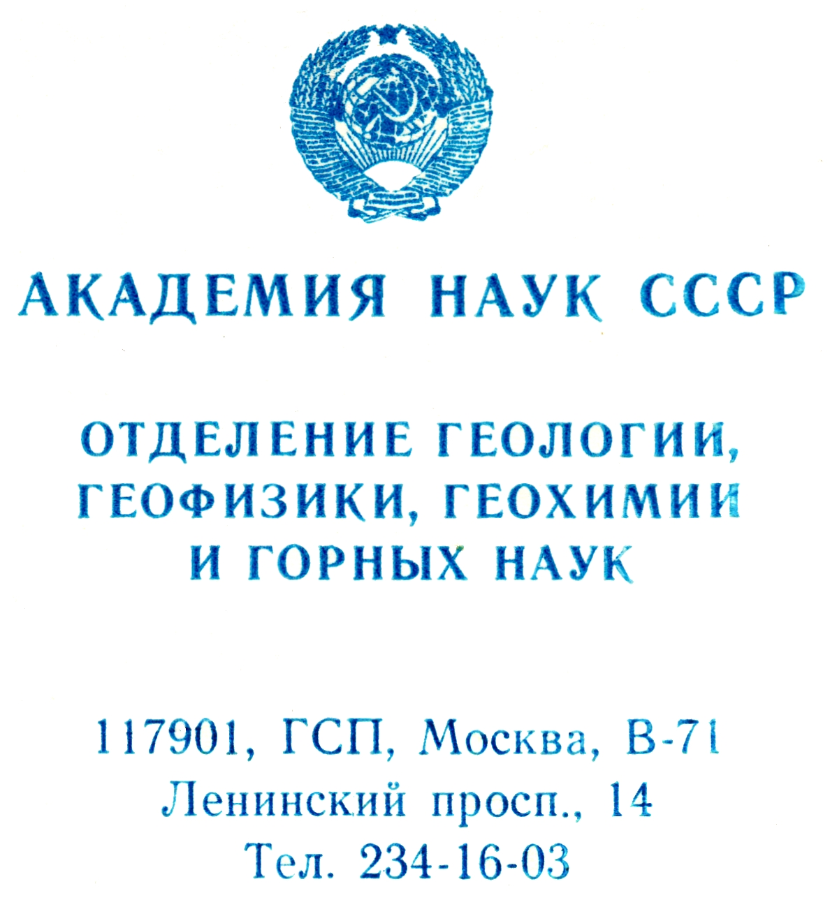 Academy of Sciences of the USSR (Earth Sciences Division)